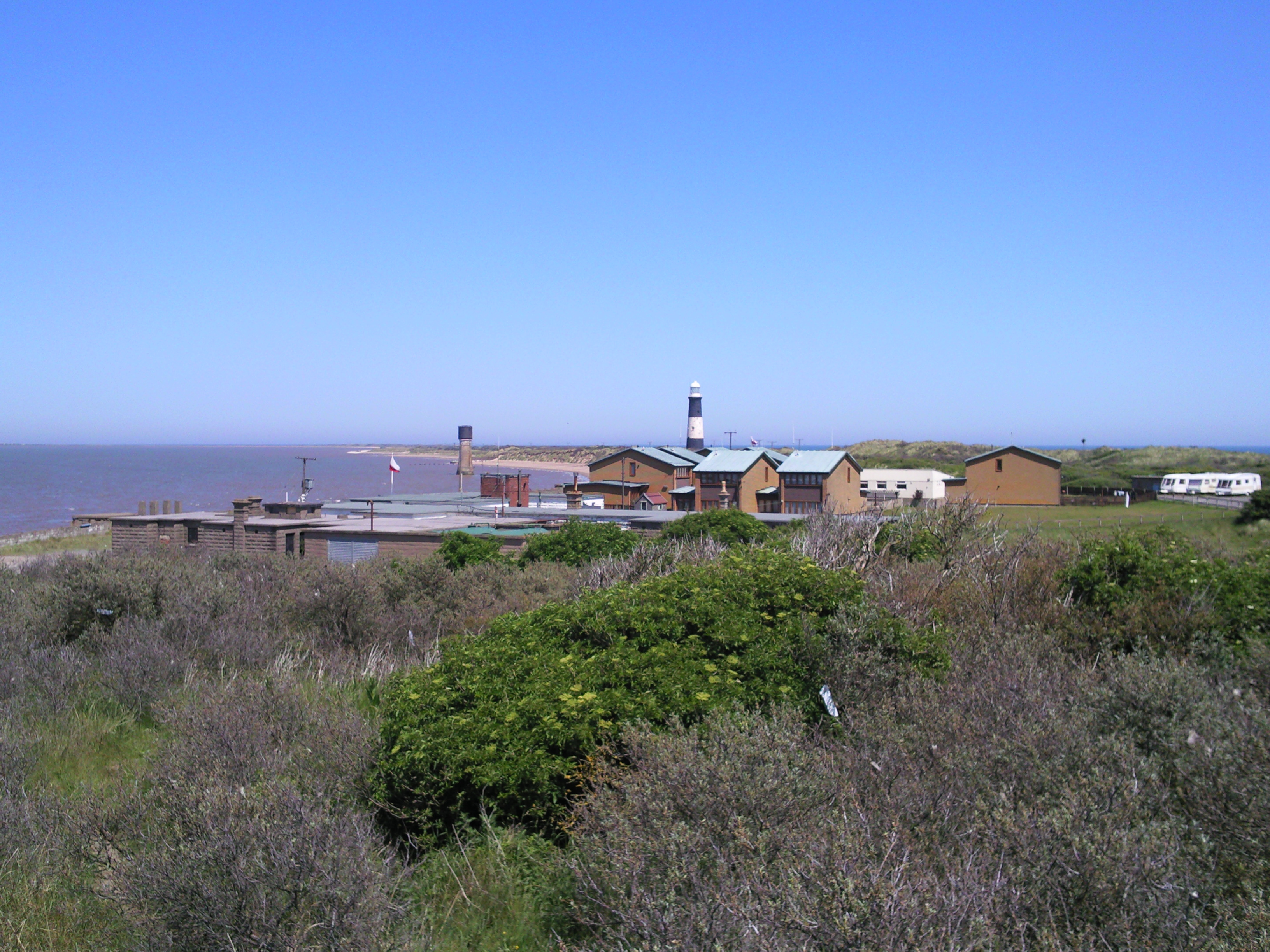 Collection of buildings and houses at the end of Spurn Head, East Riding of Yorkshire, including the Lighthouse.